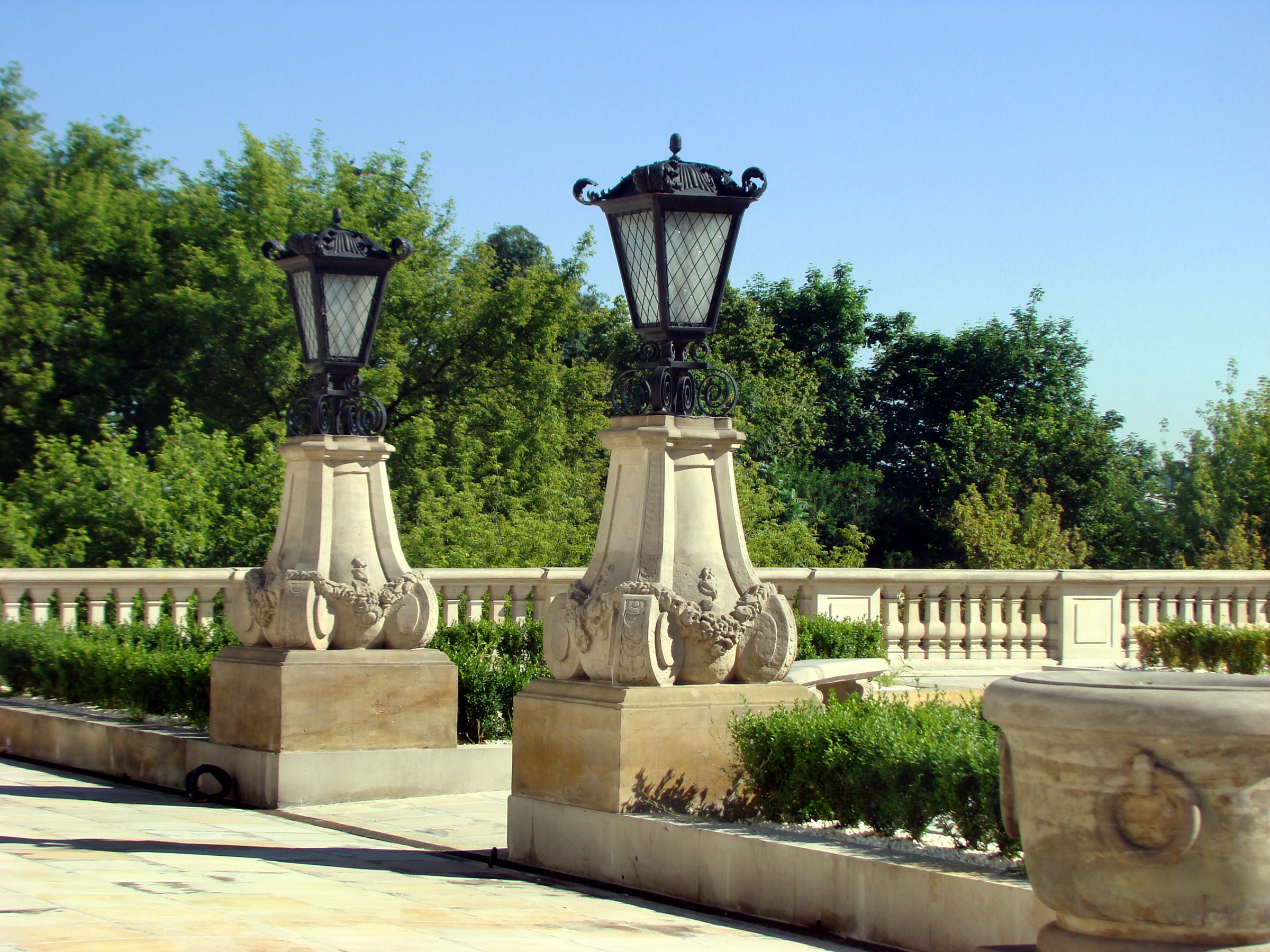 Ostrogski Palace - terrace garden with lanterns